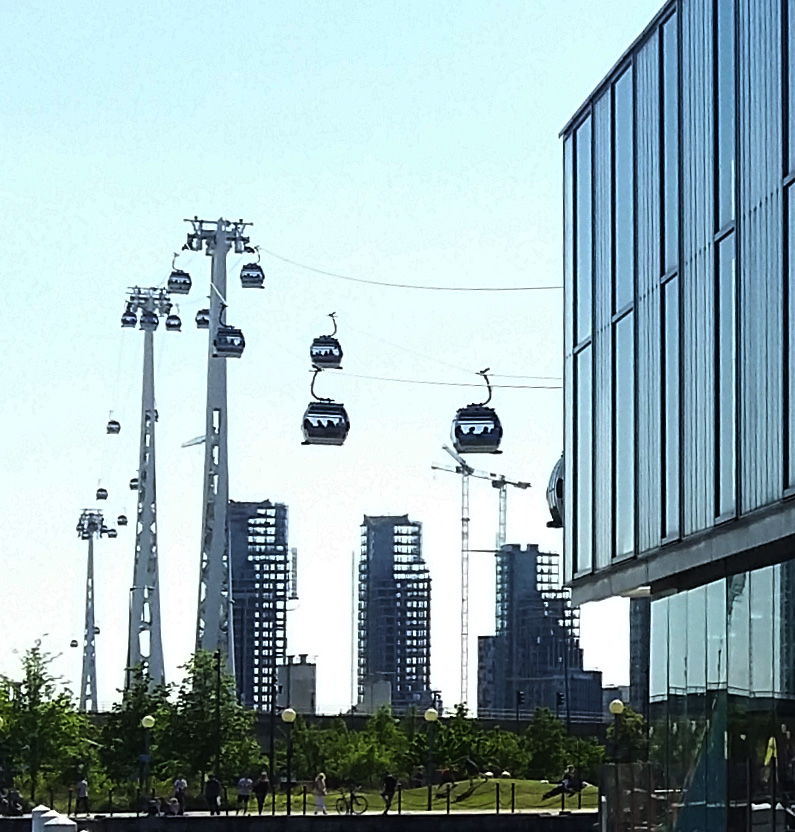 Emirates Air Line, Royal Docks, London, UK